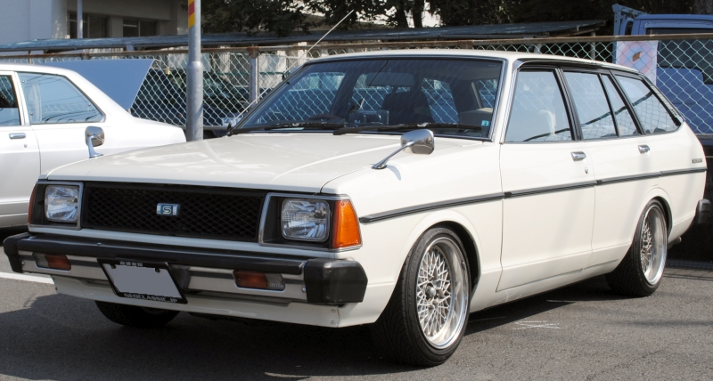 Datsun Sunny California.